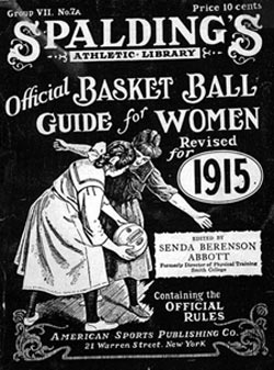 Cover of Spalding's Official Basket Ball Guide for Women (1915 edition)